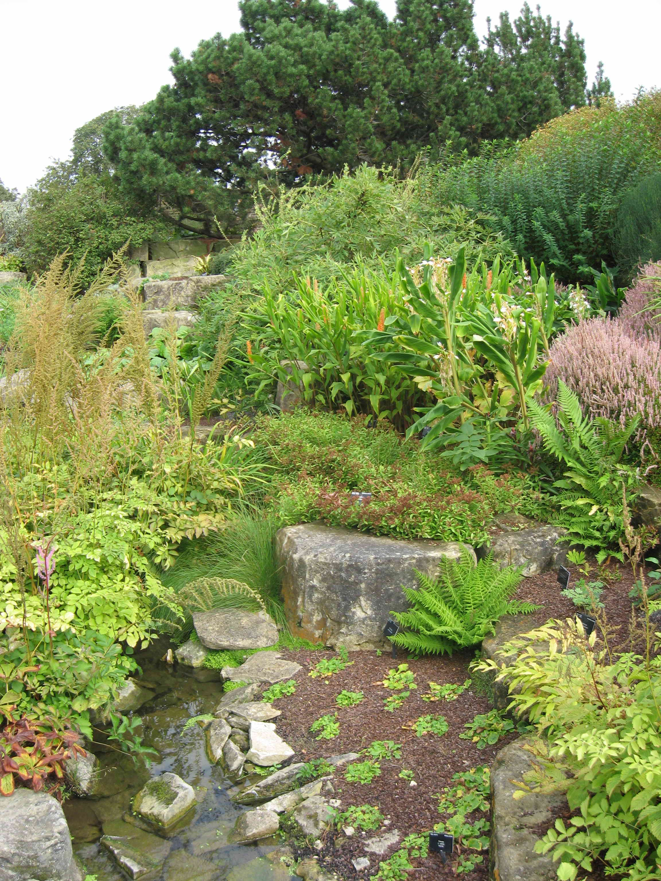 Kew Rock garden